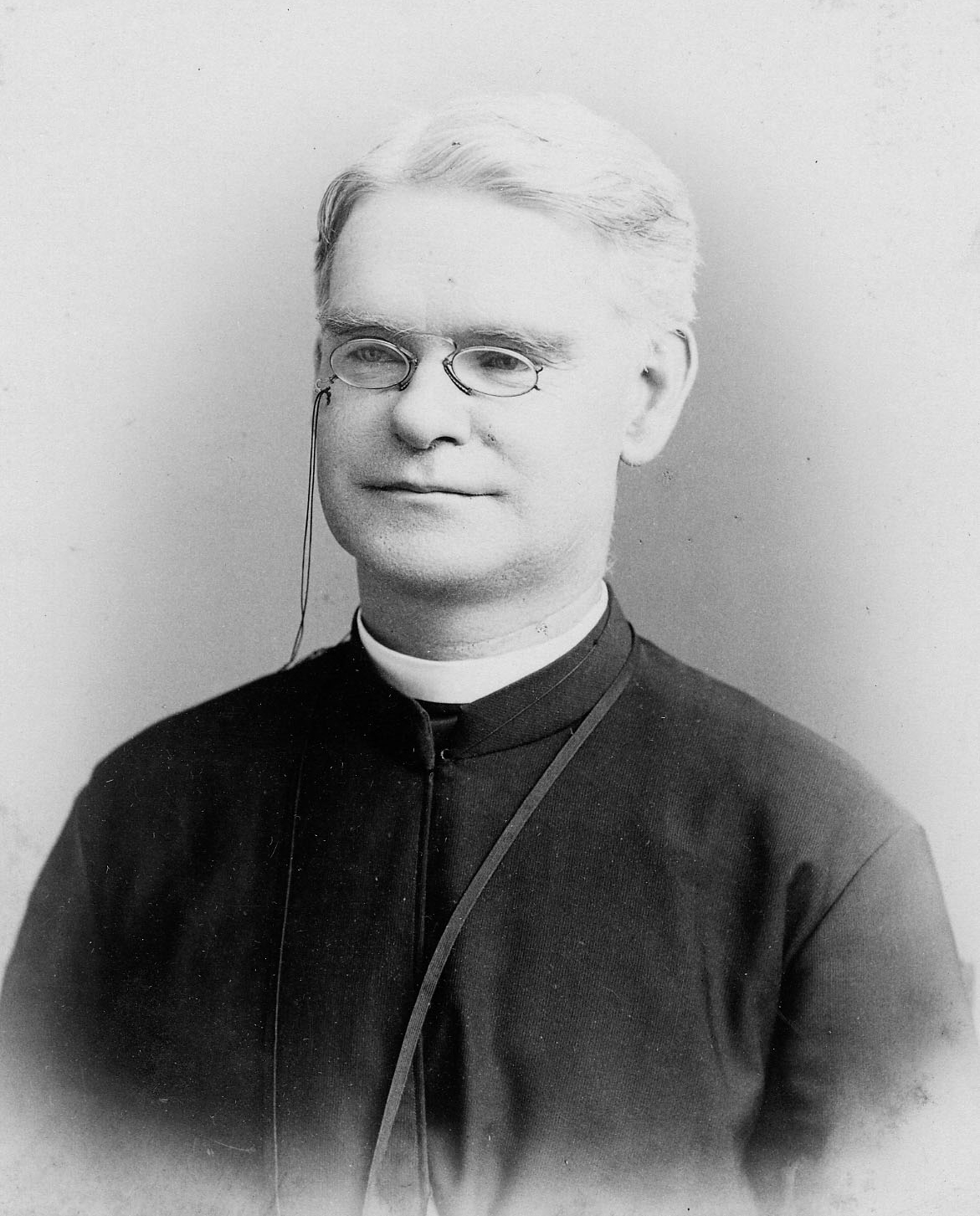 Photograph of James A. Doonan, president of Georgetown University; taken in 1890